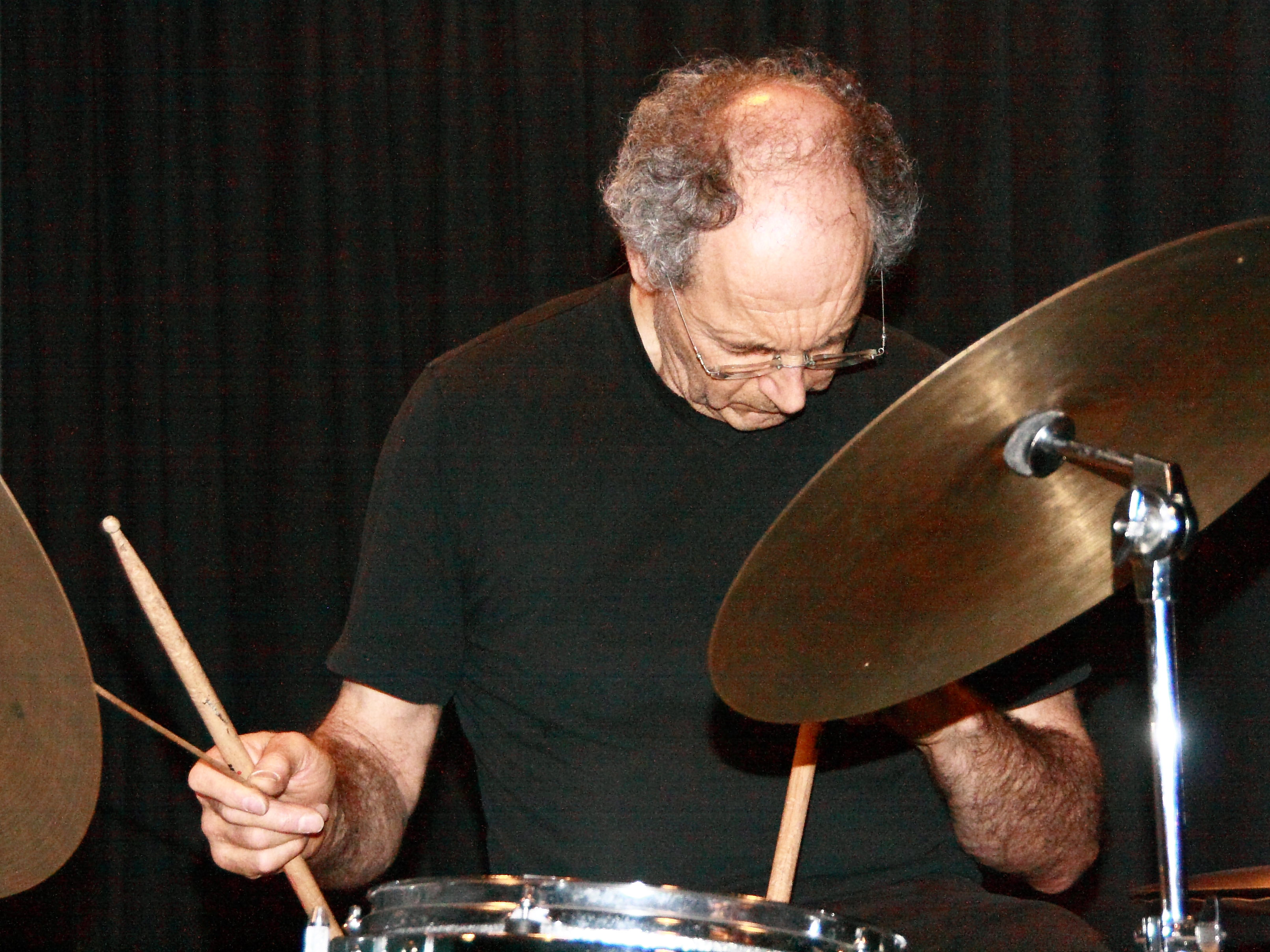 Paul Lytton in concert with Ken Vandermark & Philipp Wachsmann (CINC) at Club W71, Weikersheim.